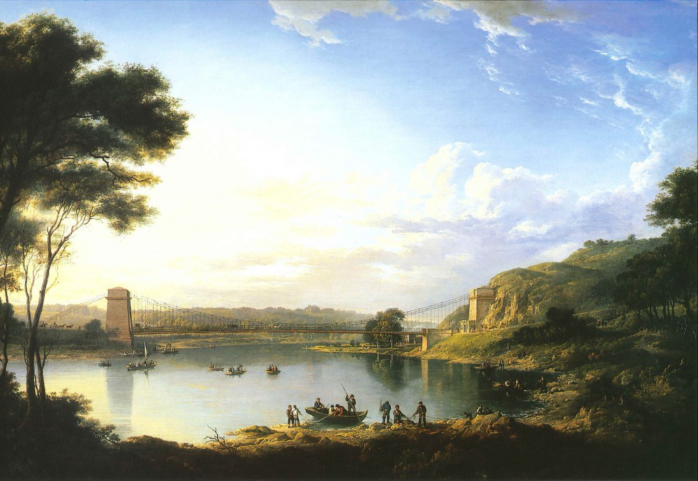 Construction of the Union Bridge over the Tweed by Alexander Nasmyth (1758 - 1840)